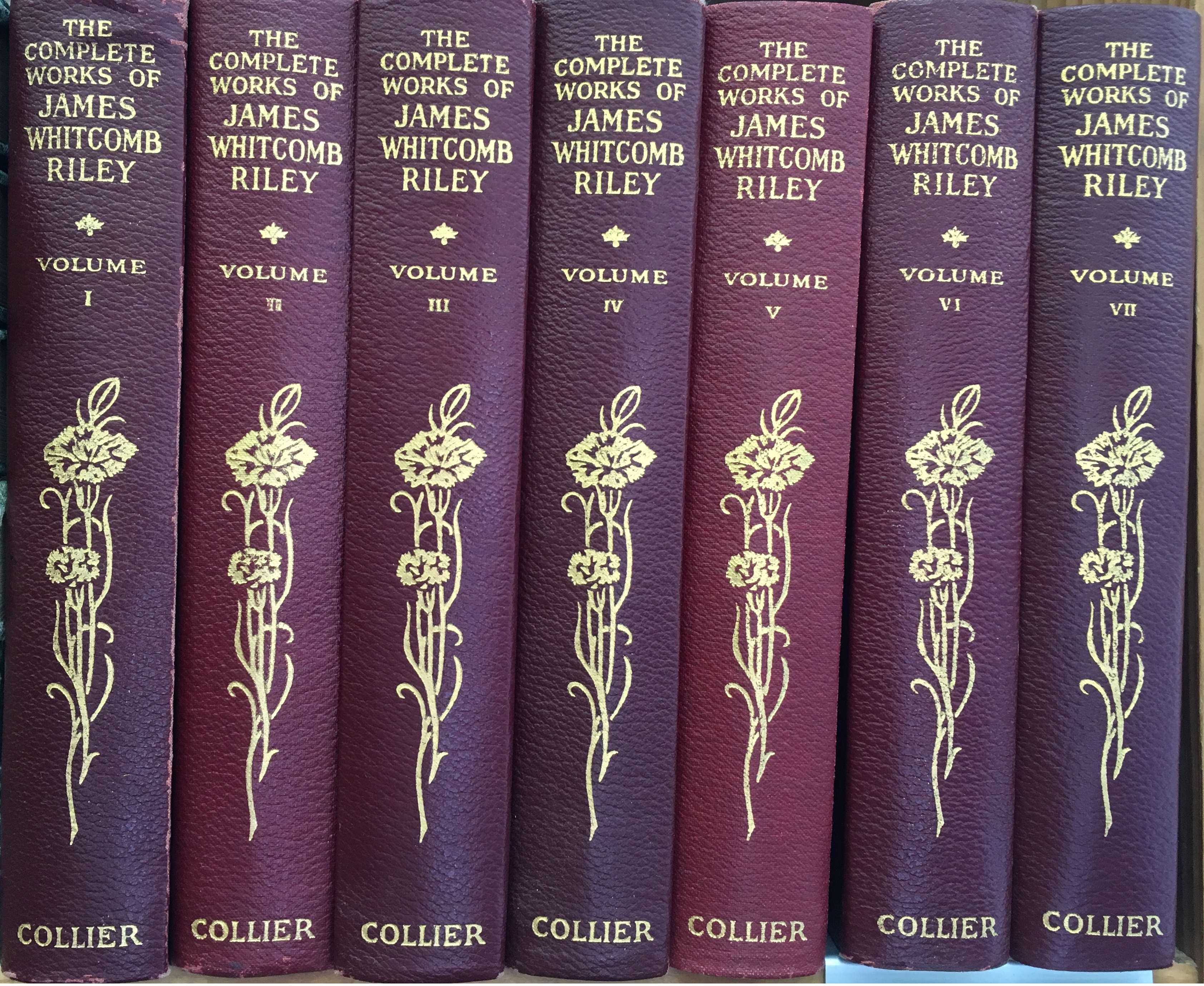 Seven volumes of the Complete Works of James Whitcomb Riley. There are three additional volumes, for a total of 10 in the set.